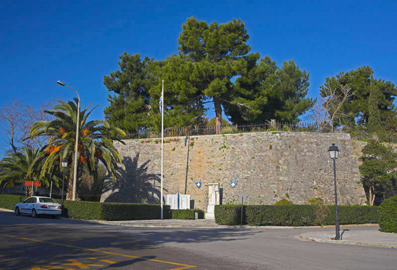 The castle of St. Andrew, Preveza, Greece. View from the south-east.